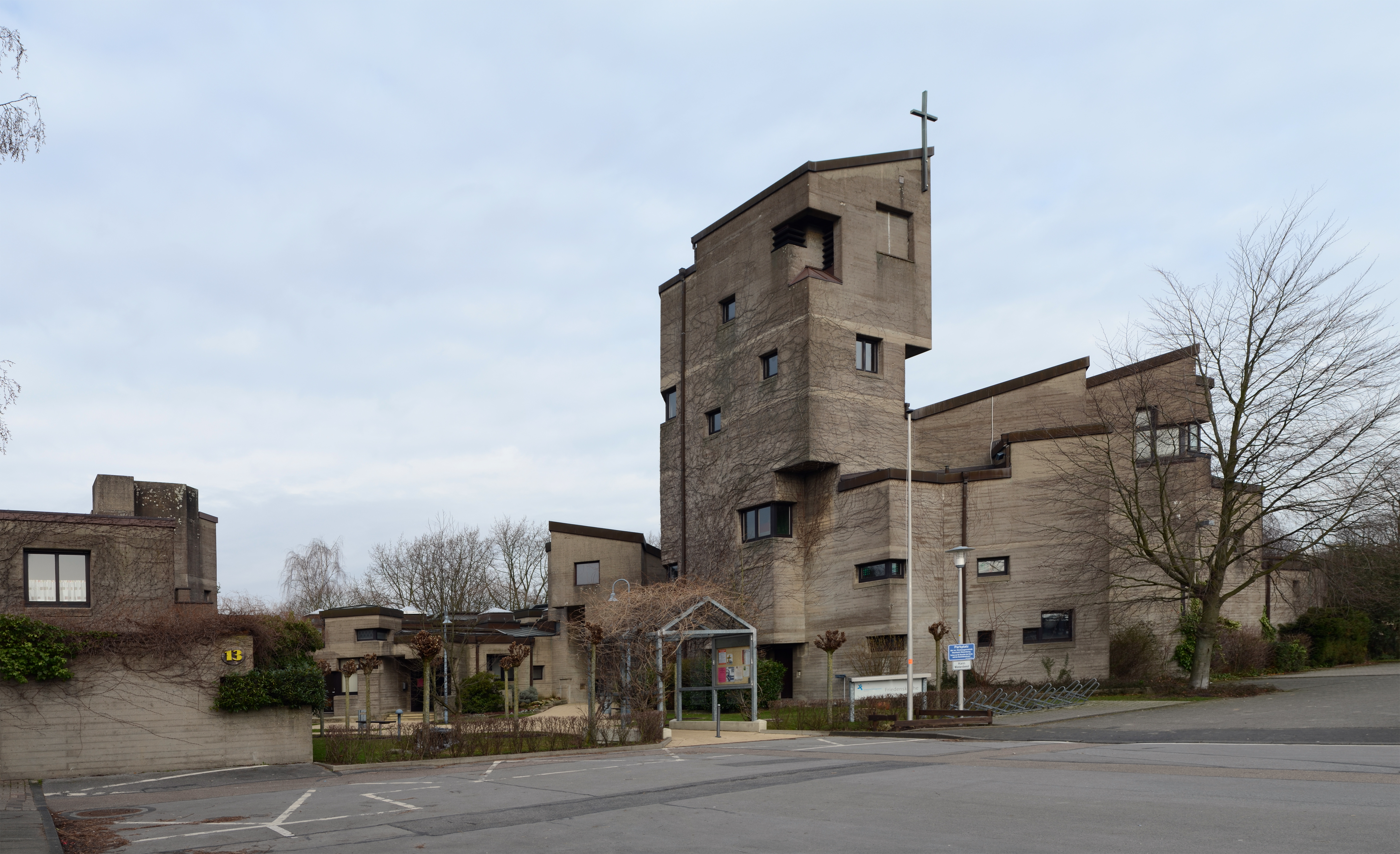 Monheim am Rhein (North Rhine-Westphalia, Germany) – district Baumberg – Protestant Church of Peace This photograph was taken with a Nikon D7000